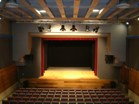 Theatre of Santa Marta, Ca' Foscari University of Venice, Italy.